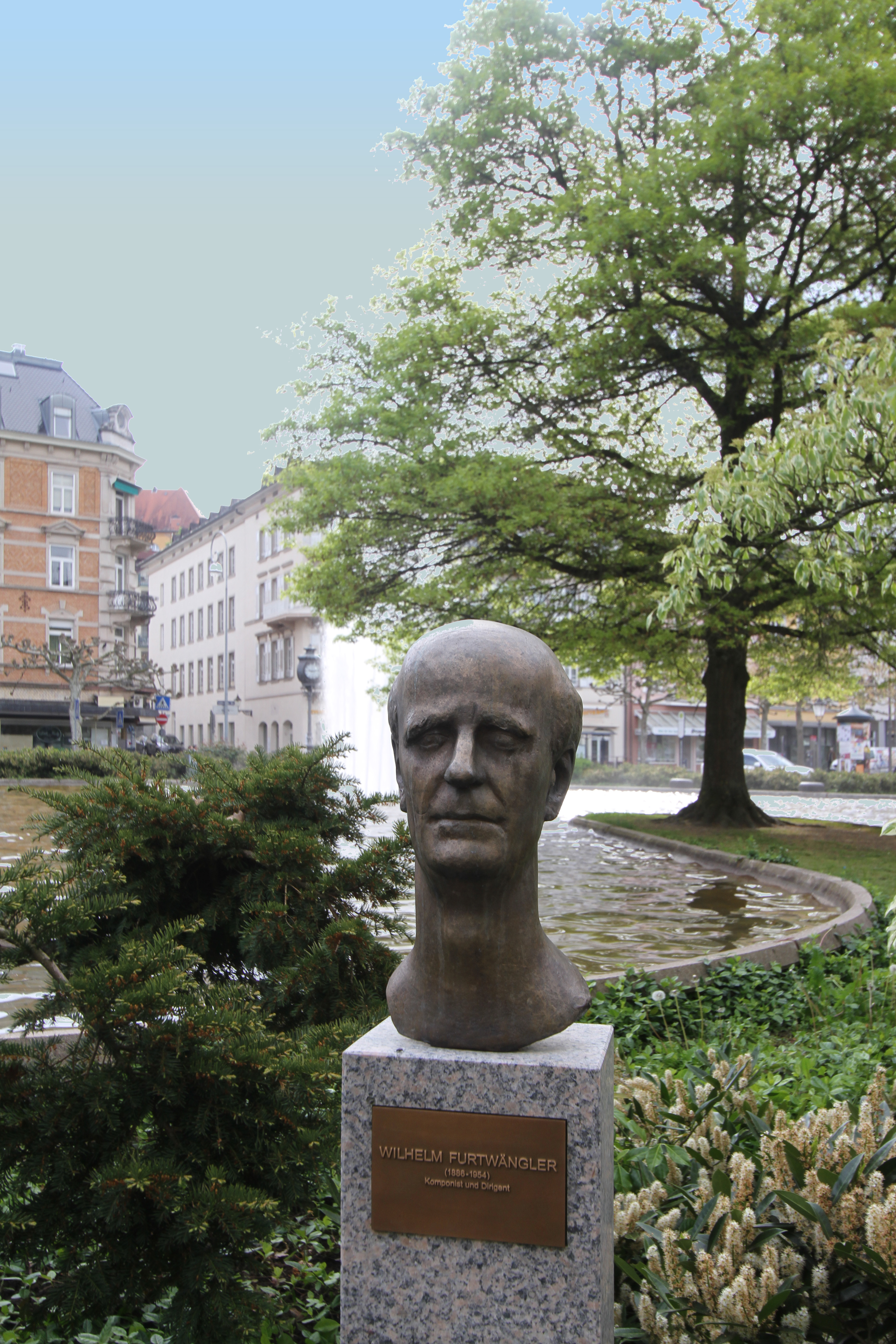 Bust of the conductor Wilhelm Furtwängler (1886-1954) at the Augustaplatz in Baden-Baden, built in 2009.